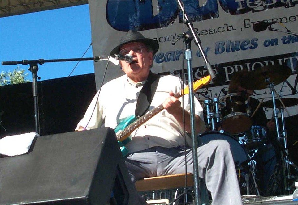 Gravenites playing to the crowd, 2006